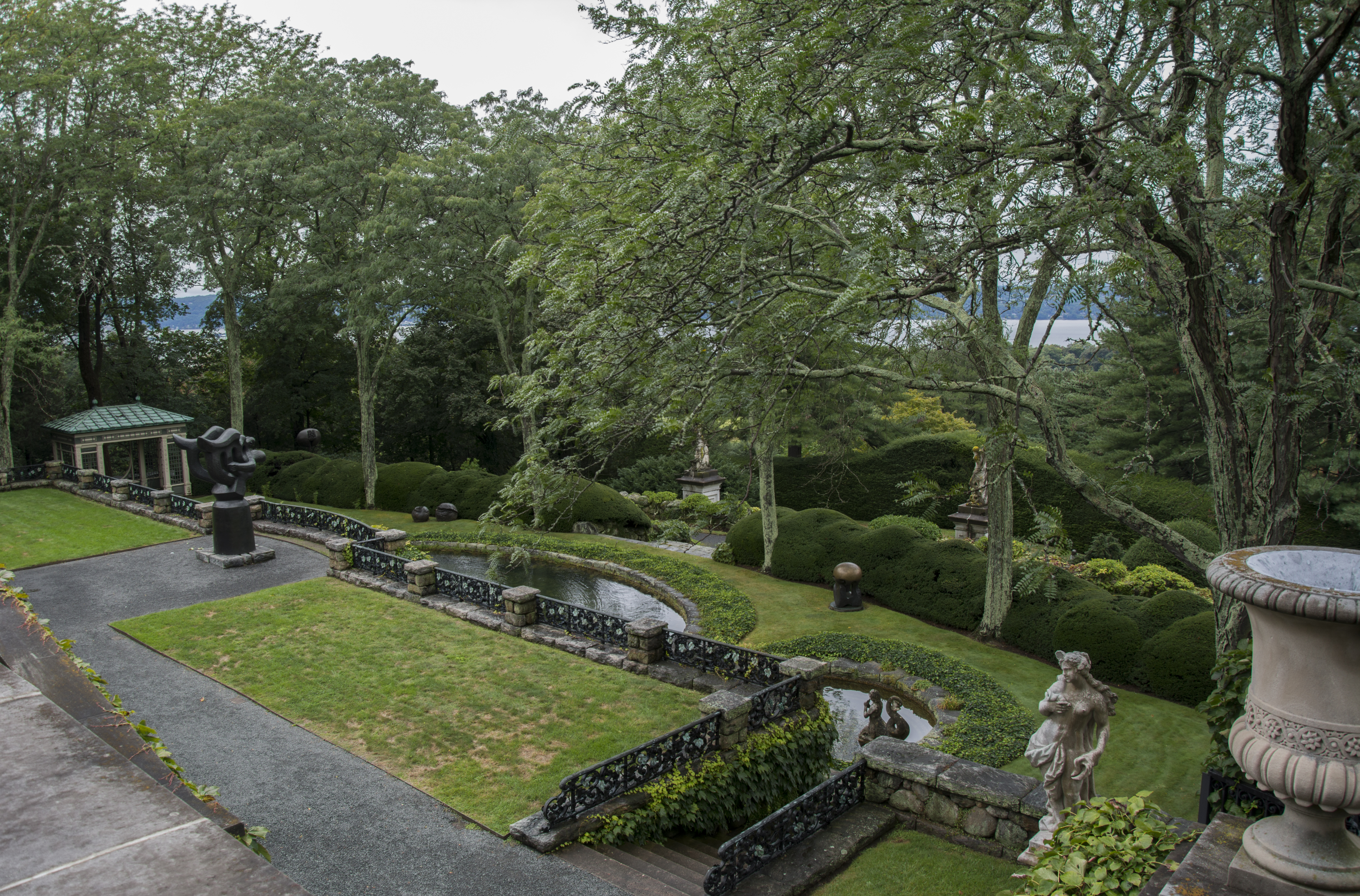 Went to Kykuit in Mount Pleasant yesterday. I have more photos but it seems the cat already has tons of ok ones.